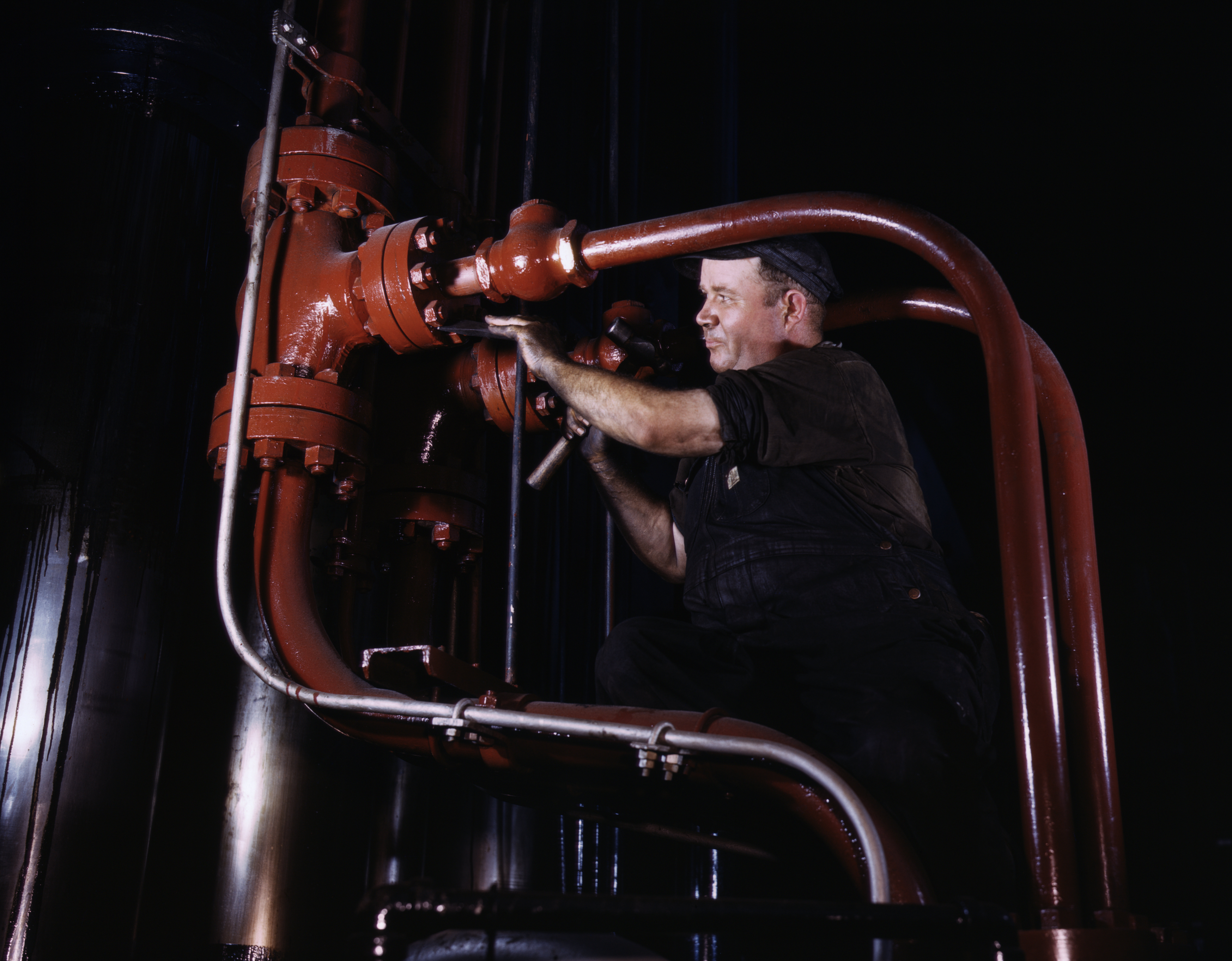 Maintenance man at the Combustion Engineering Co. working at the largest cold steel hydraulic press in the world, Chattanooga, Tenn. This press can shape steel plates several inches in thickness.